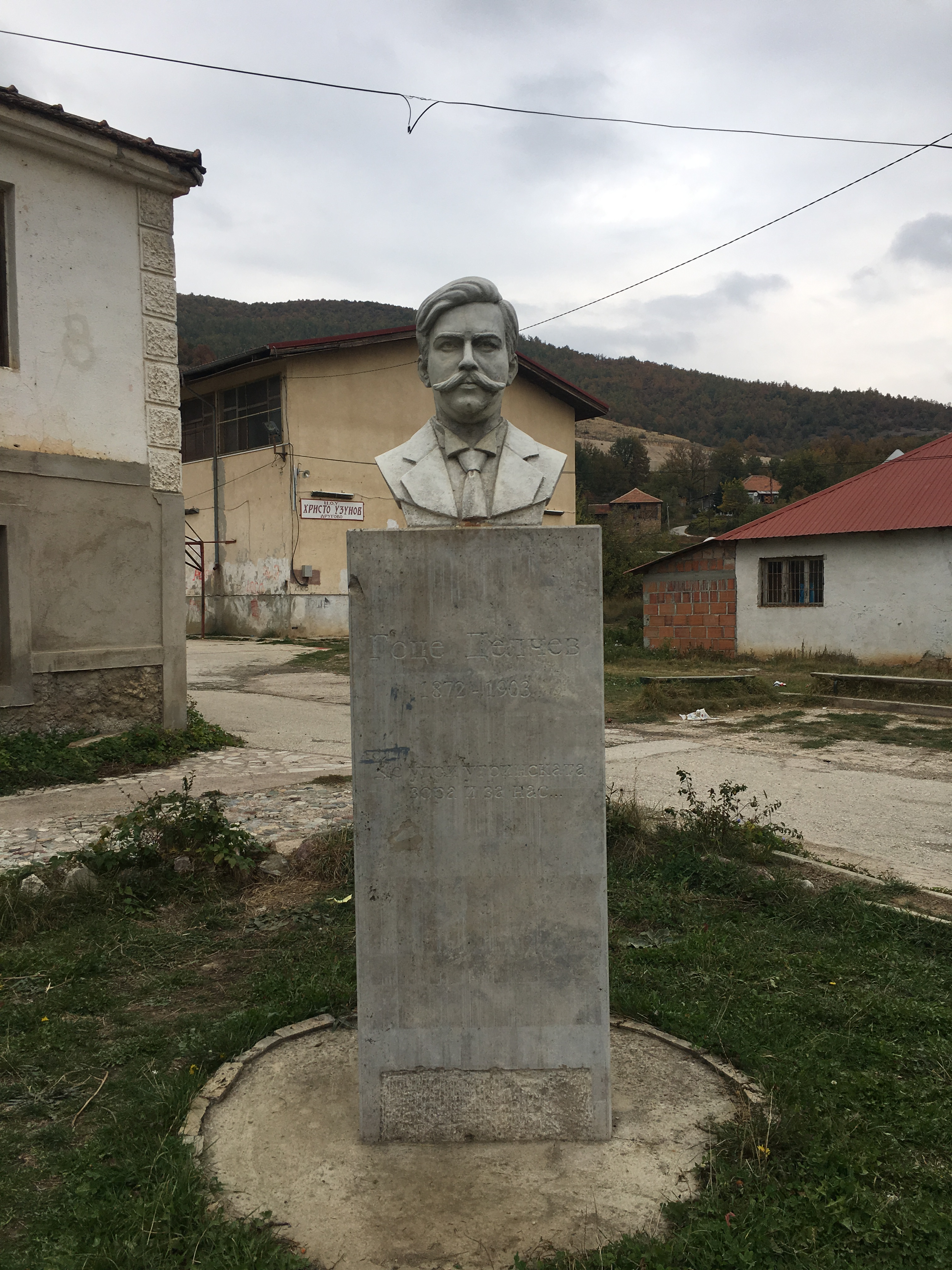 Wikiexpedition to Kopačka